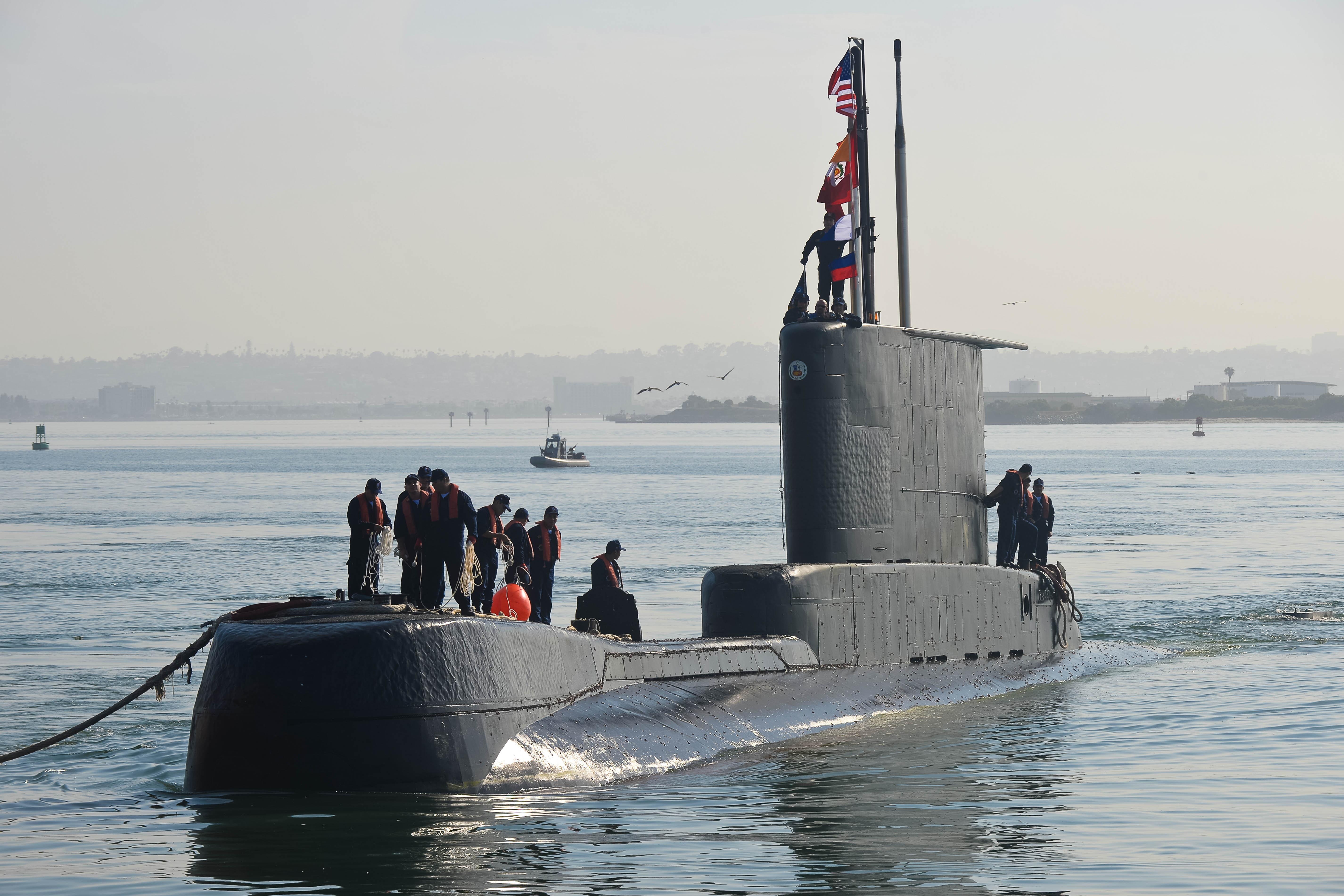 The Peruvian submarine BAP Pisagua (SS-33) arrives at the U.S. Naval Base Point Loma, California (USA), in support of the "Diesel-Electric Submarine Initiative" program. Pisagua, commanded by Cmdr. Sergio Garma, was visiting San Diego to conduct training and exercises with the U.S. Navy, including anti-submarine warfare and submarine rescue operations.